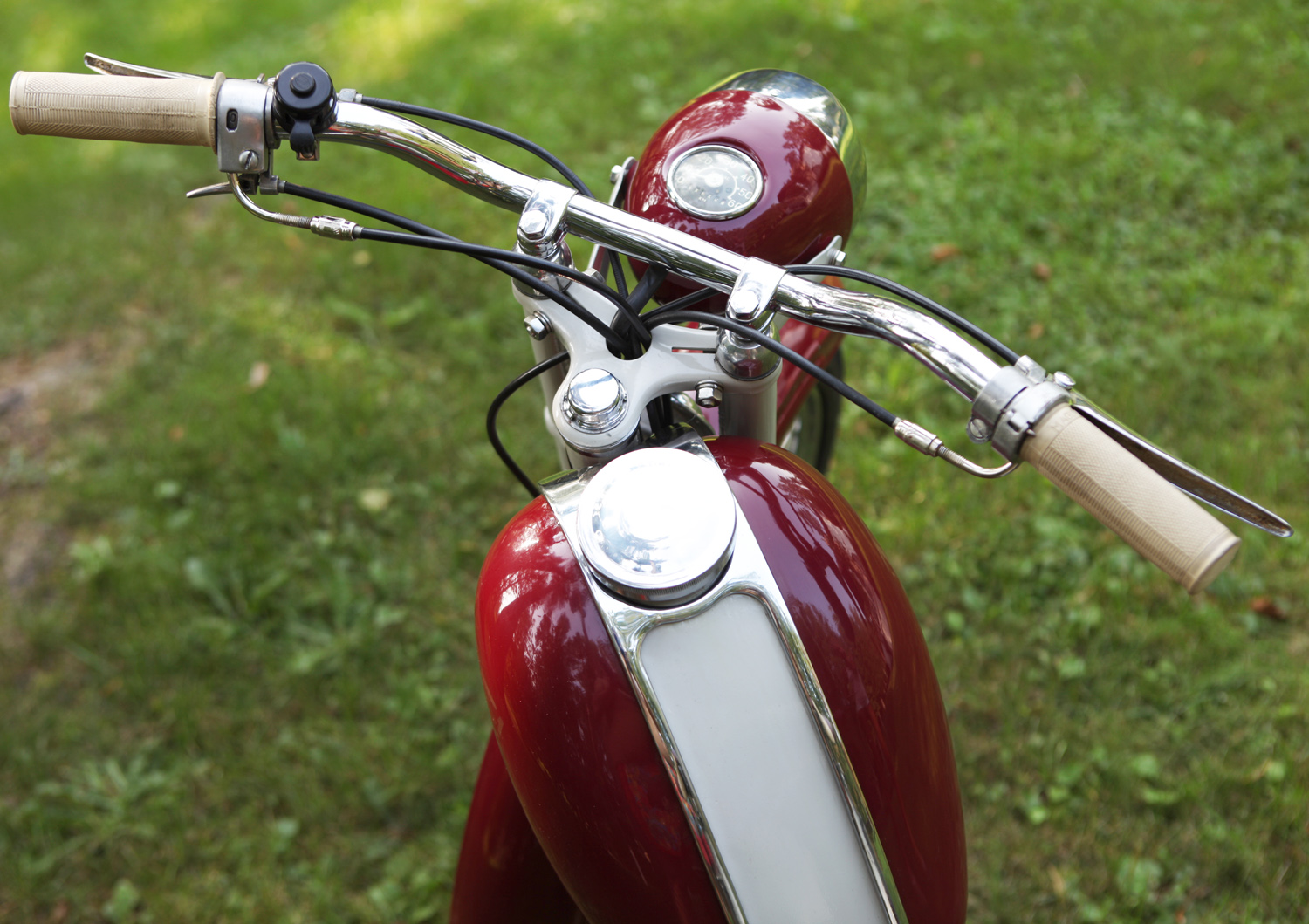 USSR moped « Riga-1», Riga motorcycle factory 1962